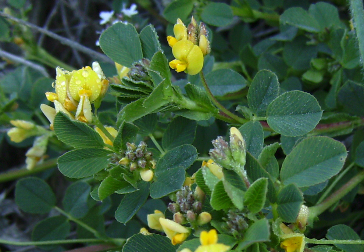 Medicago suffruticosa flowering, Castelltallat, Catalonia